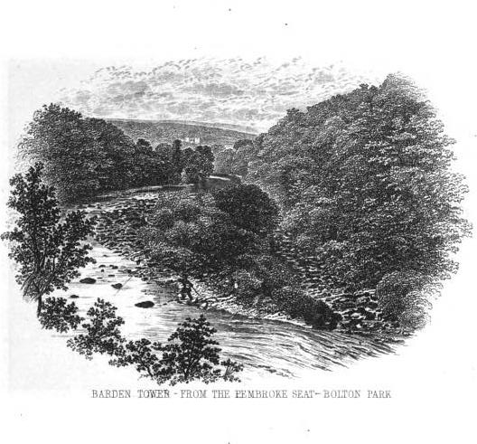 Frontispiece illustration, "Walks in Yorkshire, I. in the northwest, II. in the north east," written by the English antiquary William Stott Banks, published by J. Russell Smith, London, 1866.